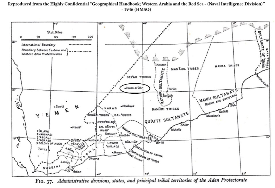 1946 South Arabia